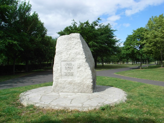 Éamonn Ceannt Memorial Éamonn Ceannt was one of the leaders of the 1916 Easter Rising. He was executed in May of that year in Kilmainham Jail.